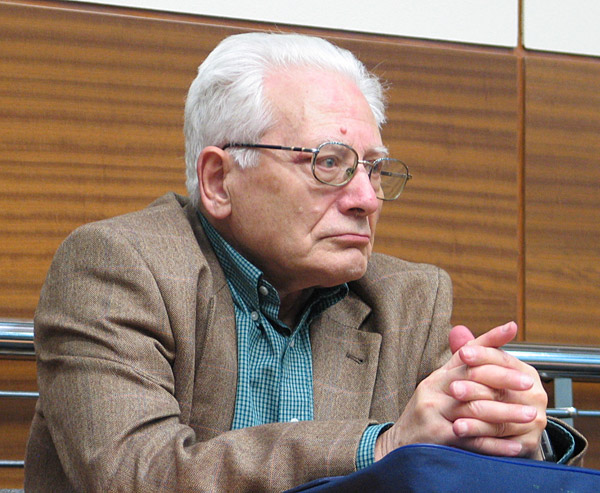 Russian sociologist Igor Kon